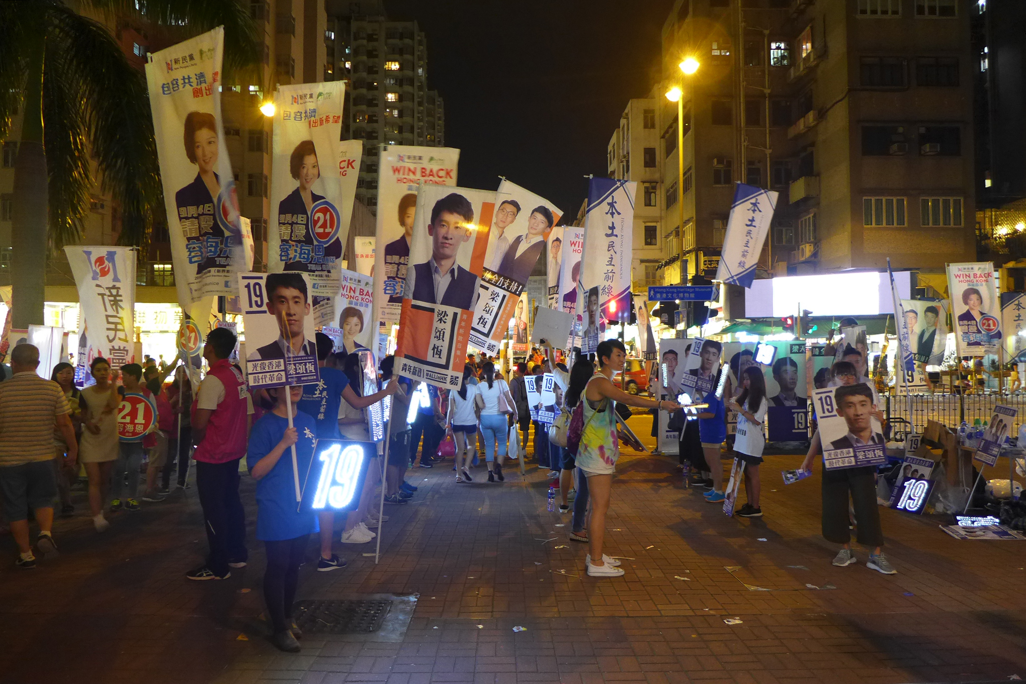 2016 Hong Kong legislative election NT East Tai Wai Promotion